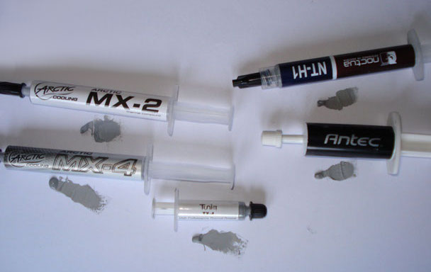 Thermal compound of different brands